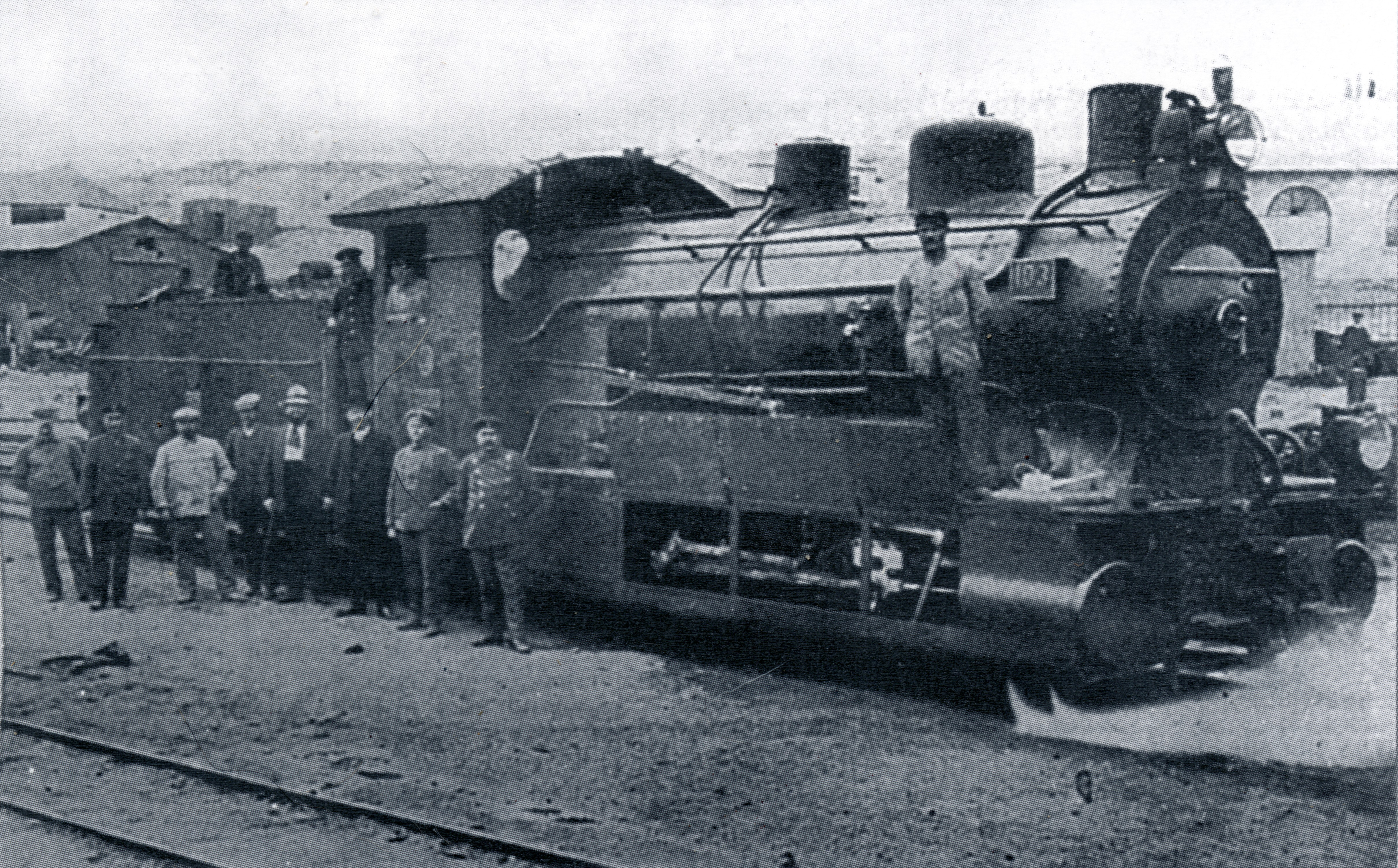 South West African 0-10-0 locomotive